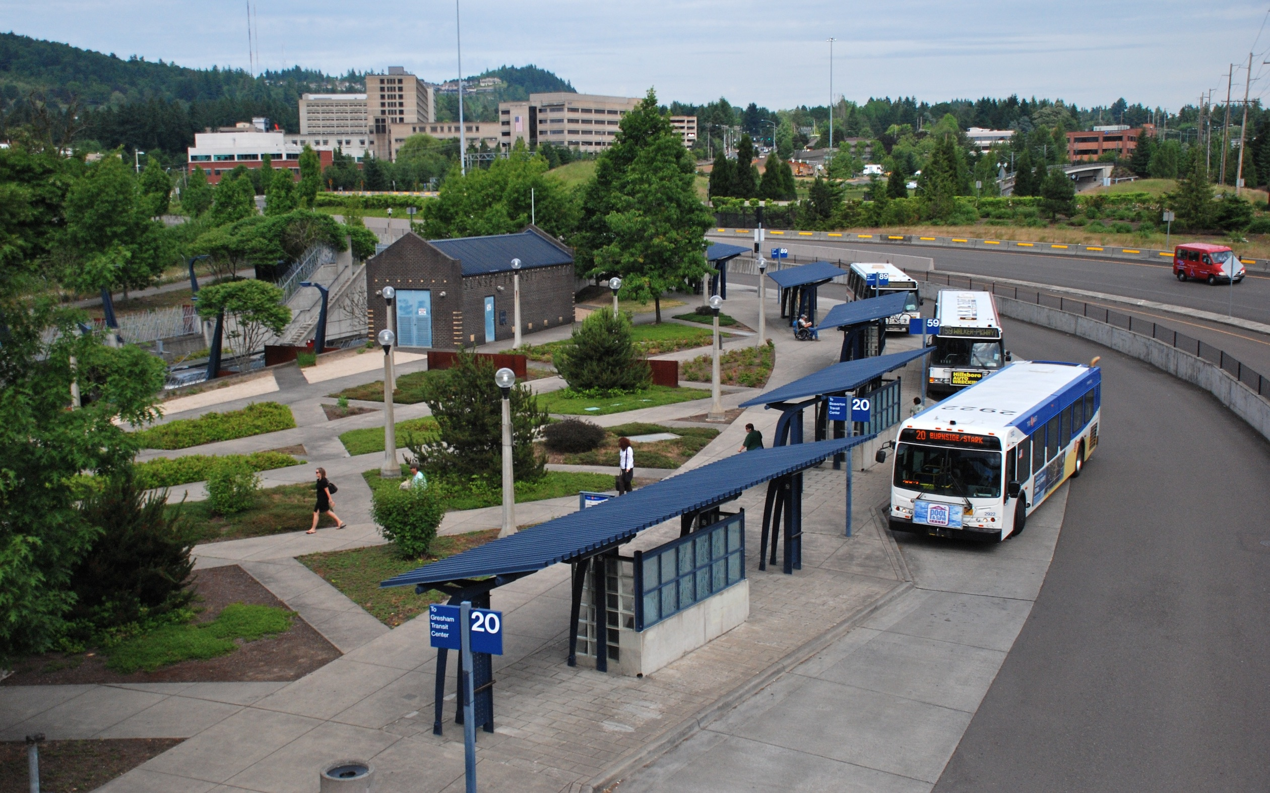 Wide view of TriMet's Sunset Transit Center, focused on the bus roadway and bus stops. At the center left is the upper part of the MAX light rail station, which is below street level but uncovered. The tallest of the buildings in the background is the Providence St. Vincent Medical Center. The two roadways at right, next to the bus roadway, are (uppermost, with red van) the connecting "ramp" from northbound Oregon Highway 217 to the westbound Sunset Highway (US 26) – the freeway after which the transit center is named – and the on-ramp to the Sunset Highway from westbound Barnes Road. The MAX bridge over Highway 217 is also visible, in the upper righthand background. The brick building (marked "Sunset Transit Center") in the center is an electrical substation for the light rail line.